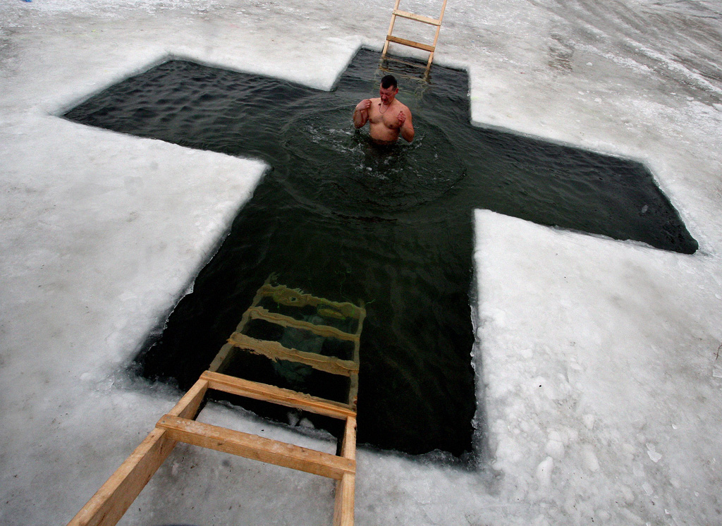 “Epiphany celebration in Maritime Territory”. Epiphany bathing on the Feast of Theophany in an ice-hole in the Partizanka river, the village of Vladimiro-Alexandrovskoye, Maritime Territory.